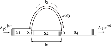 Schematics of the Quincke tube for the general case.